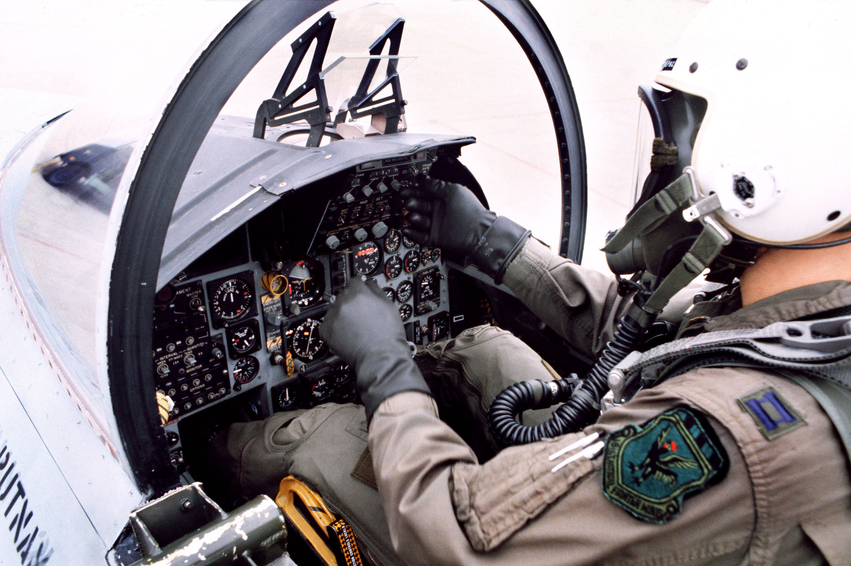 CAPTAIN DOUG MOSS does a pre-flight cockpit check of his F-15D Eagle aircraft during the Hughes Aircraft Company's Trophy activities. Location: KADENA AIR BASE, OKINAWA JAPAN (JPN)